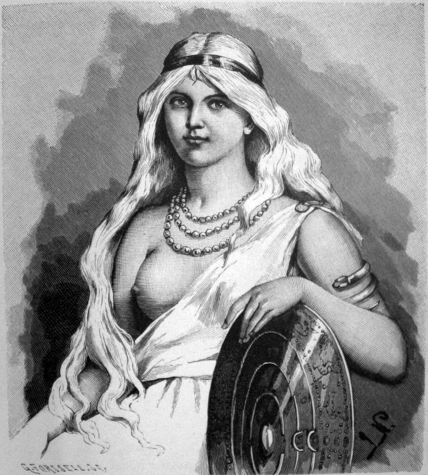 The engraving shows a smiling woman with a necklace. One of her breasts is exposed. In the bottom right corner there is the signature of Jenny Nyström (1854-1946), the illustrator. In the bottom left corner there is the signature of Gunnar Forssell (1859-1903), the xylographer. The image list on page 468 in the book describes this image as "Freya-Menglad", i.e. Freyja-Menglöð, i.e. they are taken to be the same entity.